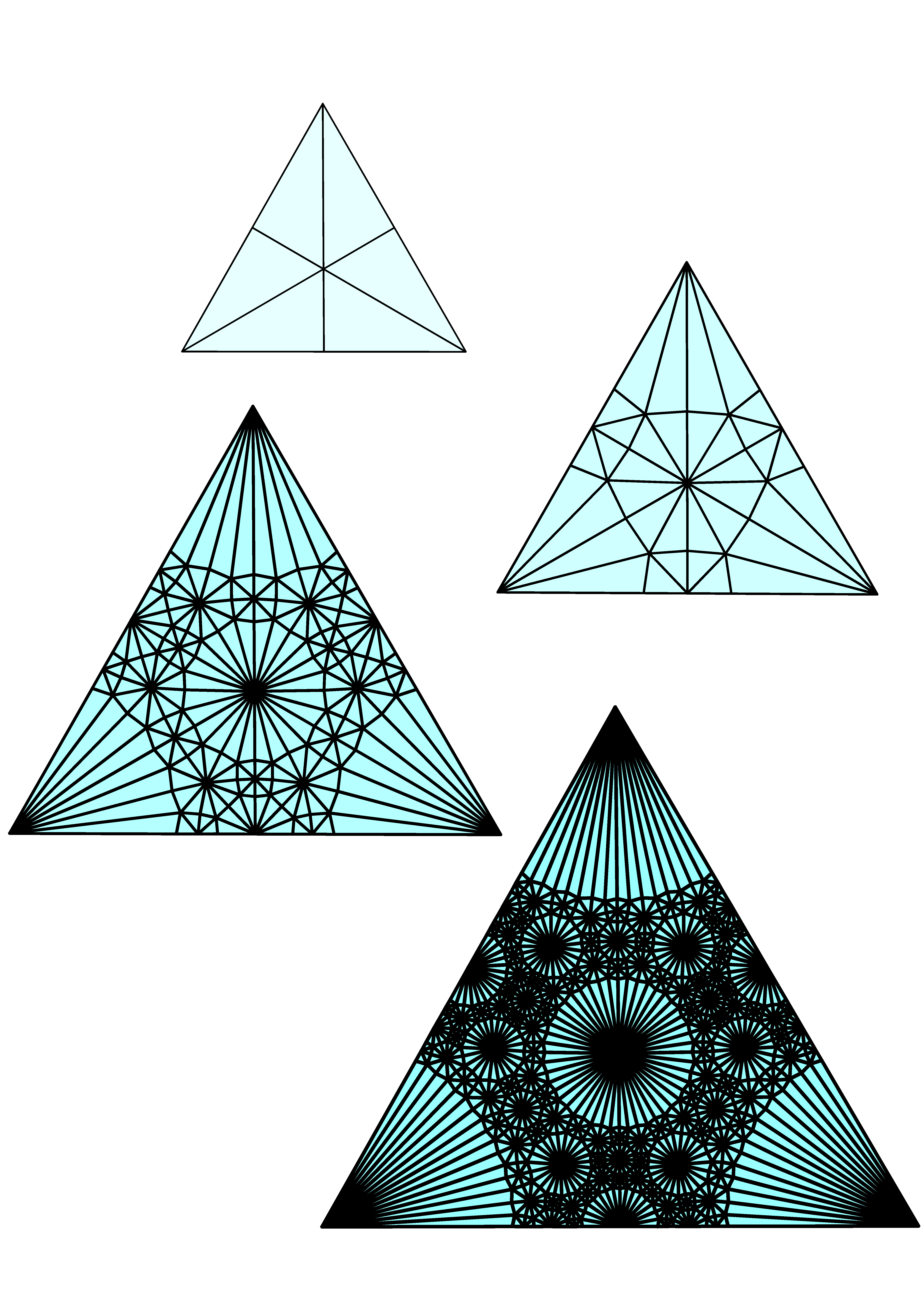 A triangle being repeatedly subdivided barycentrically. Depicted using Circlepack, which changes the placement of vertices in each shape.